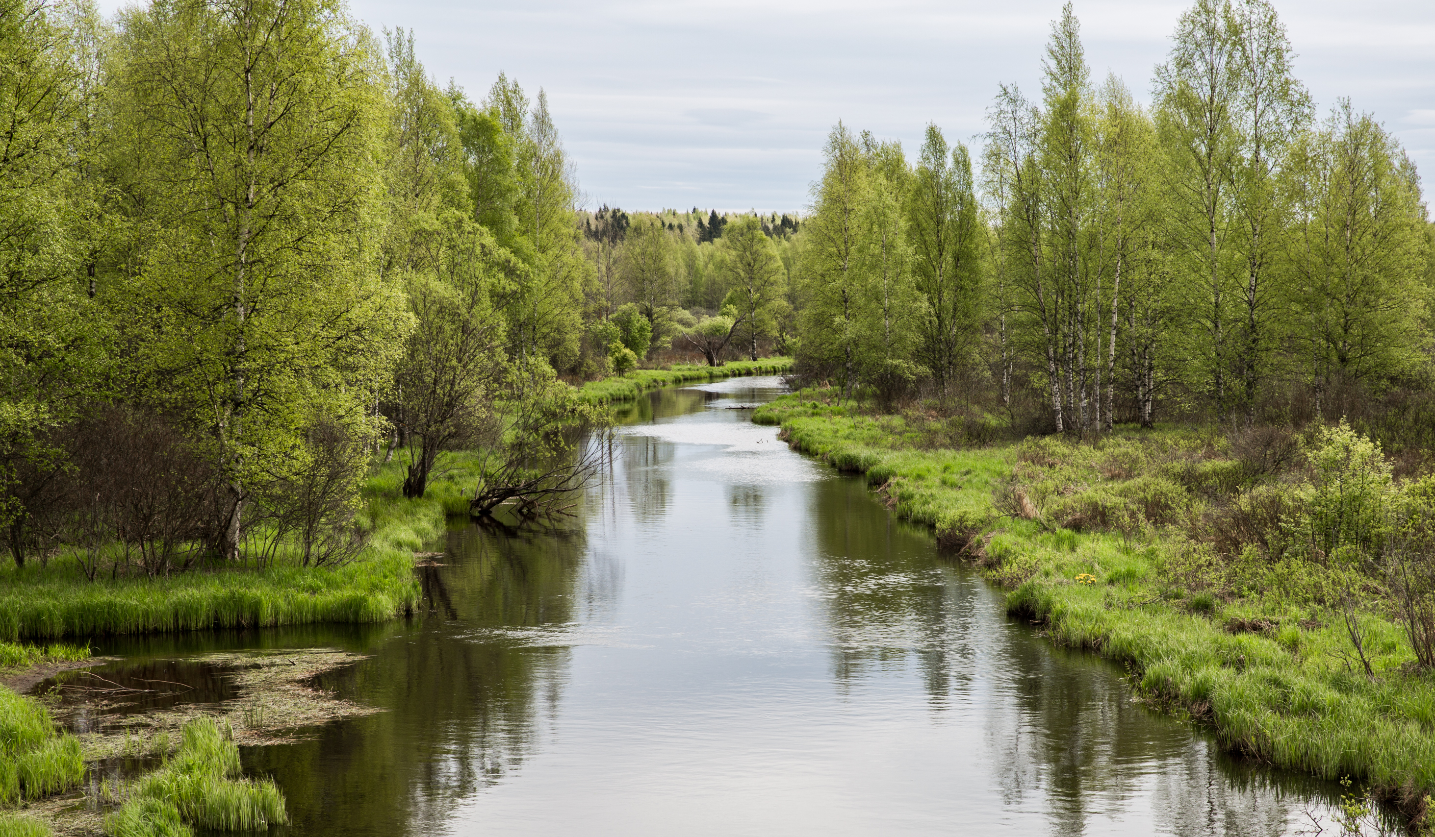 Perojoki, Karelian Isthmus, Tali/Paltsevo